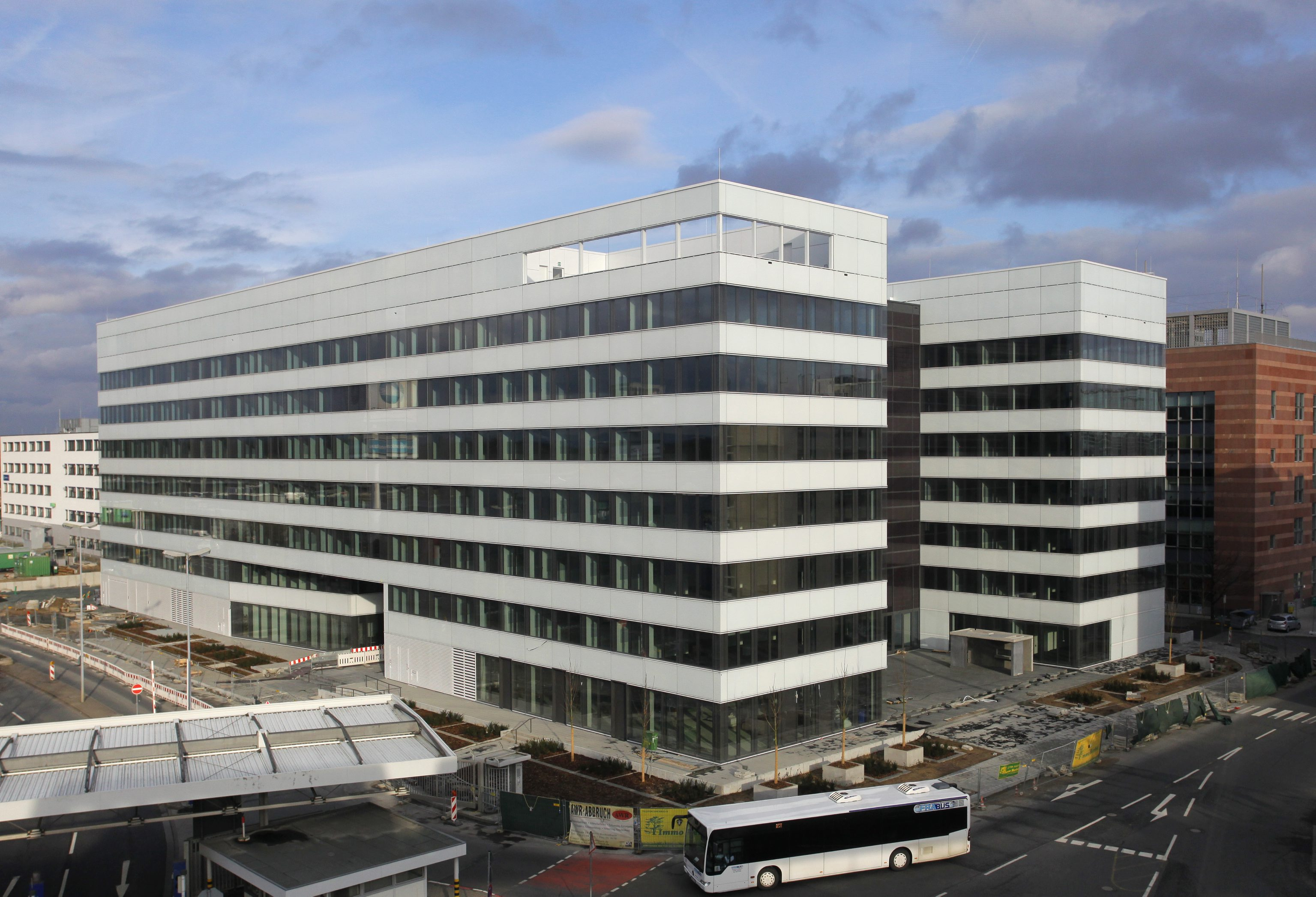 Head office of Fraport, March 2013